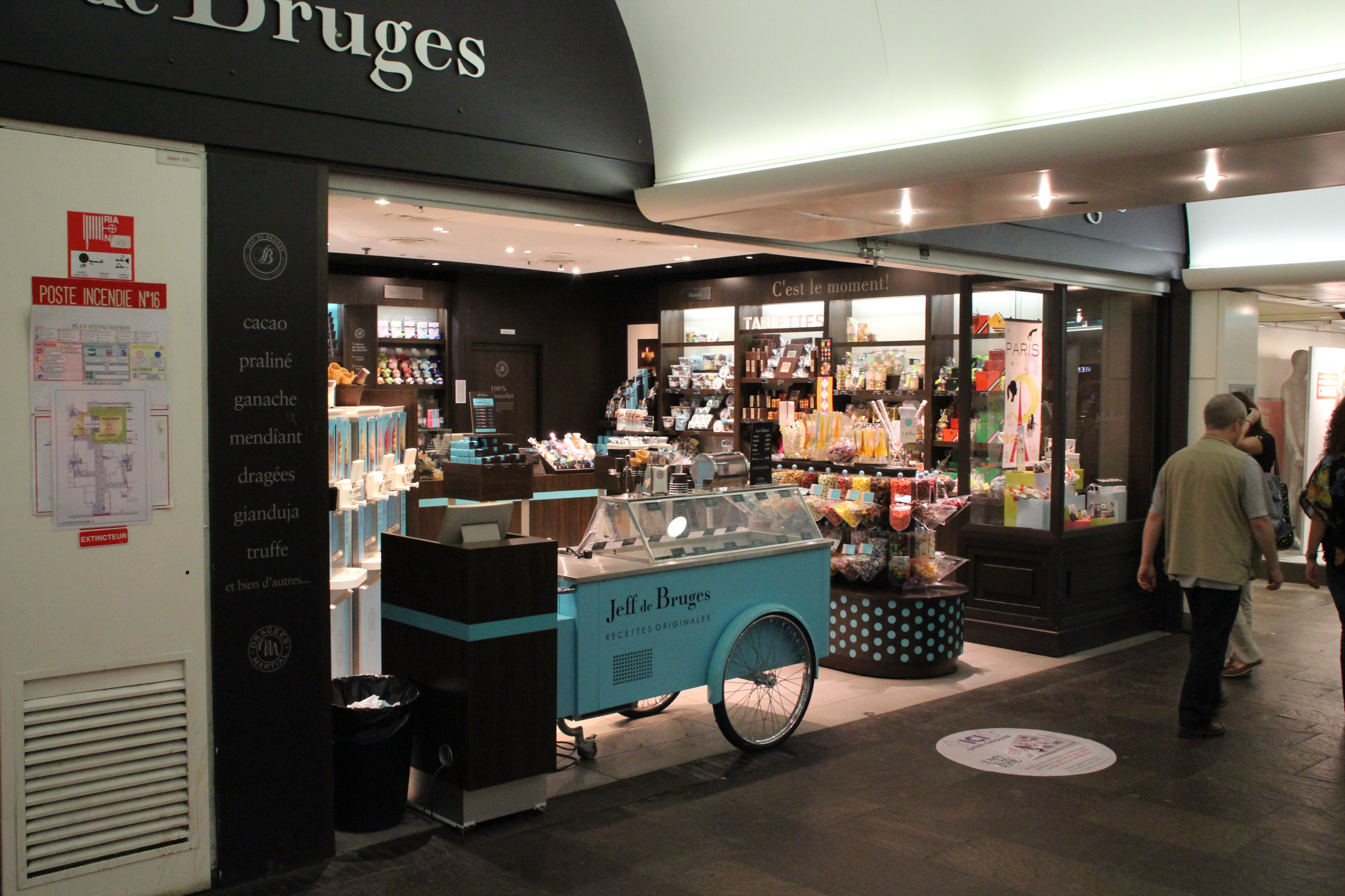 Forum des Halles shopping center in Paris, France.